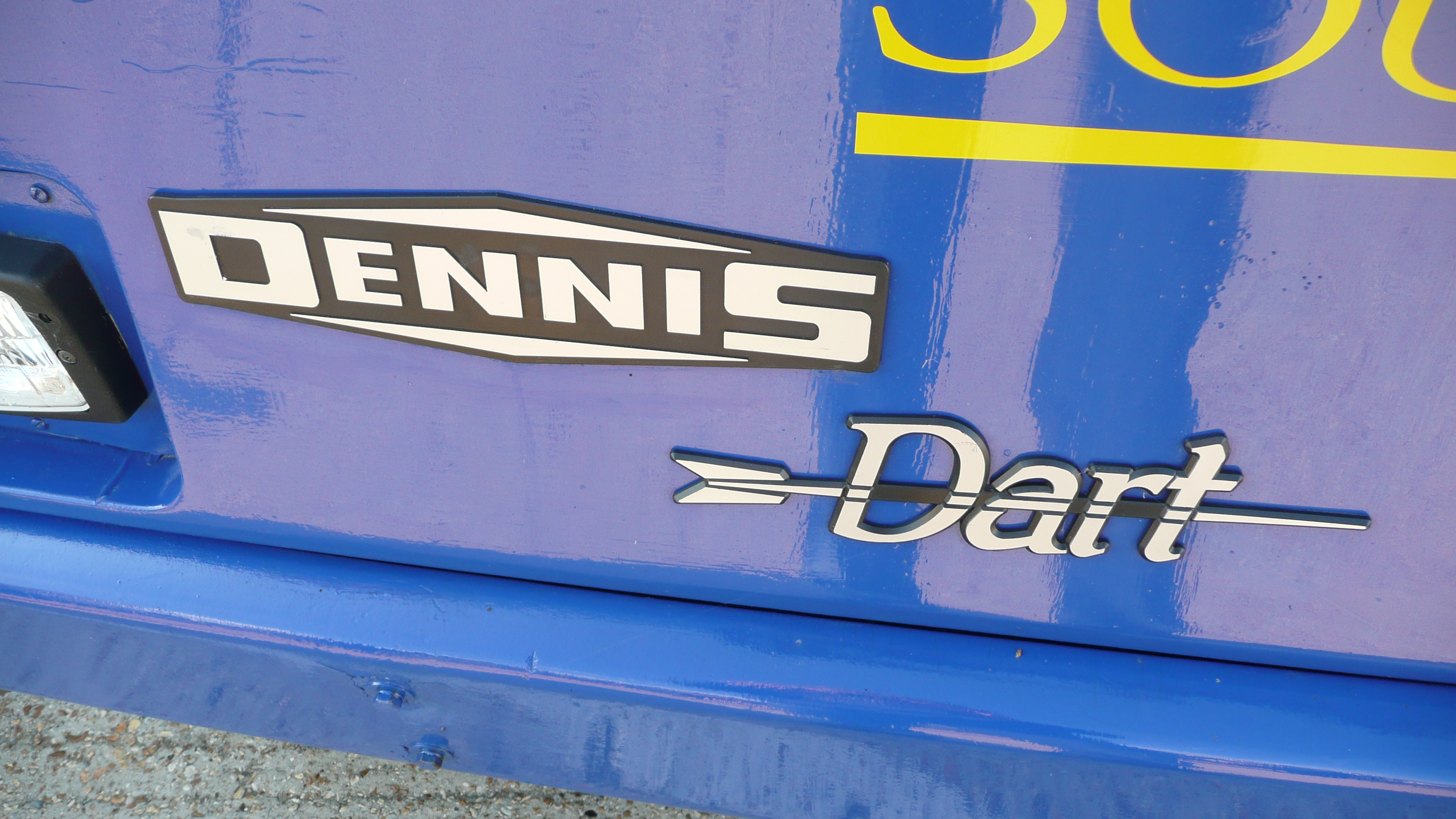 The traditional badges applied onto Dennis Darts manufactured by Dennis. This one is on a preserved ex-Southern Vectis example at the Isle of Wight bus museum's 2008 running day, at Newport Quay, Newport, Isle of Wight, England.